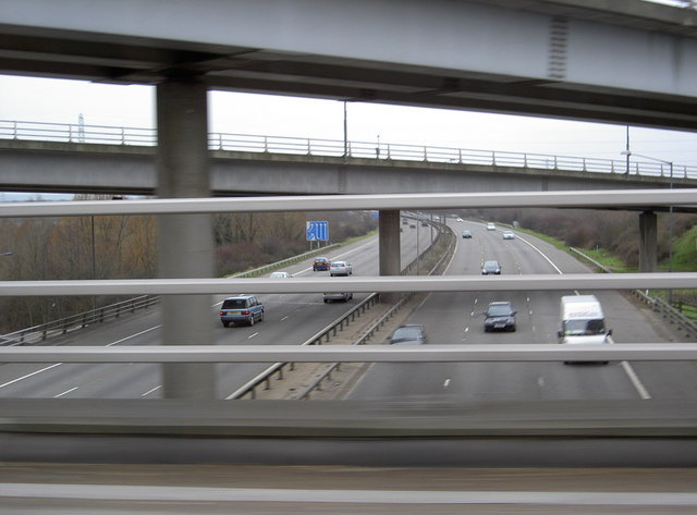 M25 clockwise at junction 15 Looking west down M4